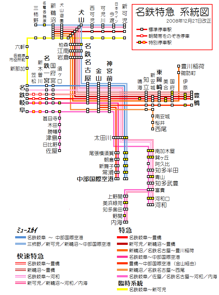 Meitetsu Limited Express Network (Japanese).Revision of December 27, 2008.